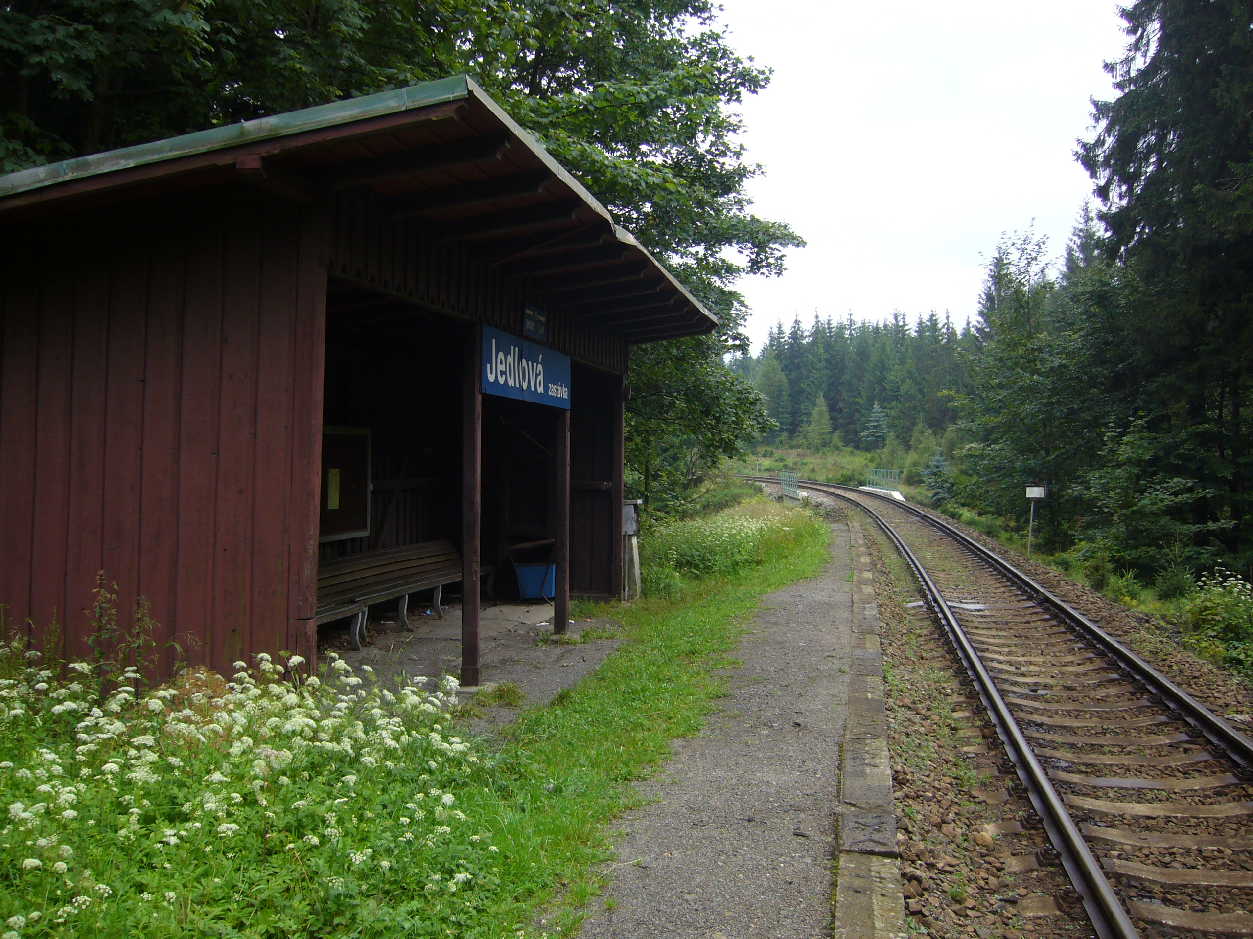 Train stop Jedlová ("Jedlová zastavka") near the train station Jedlová